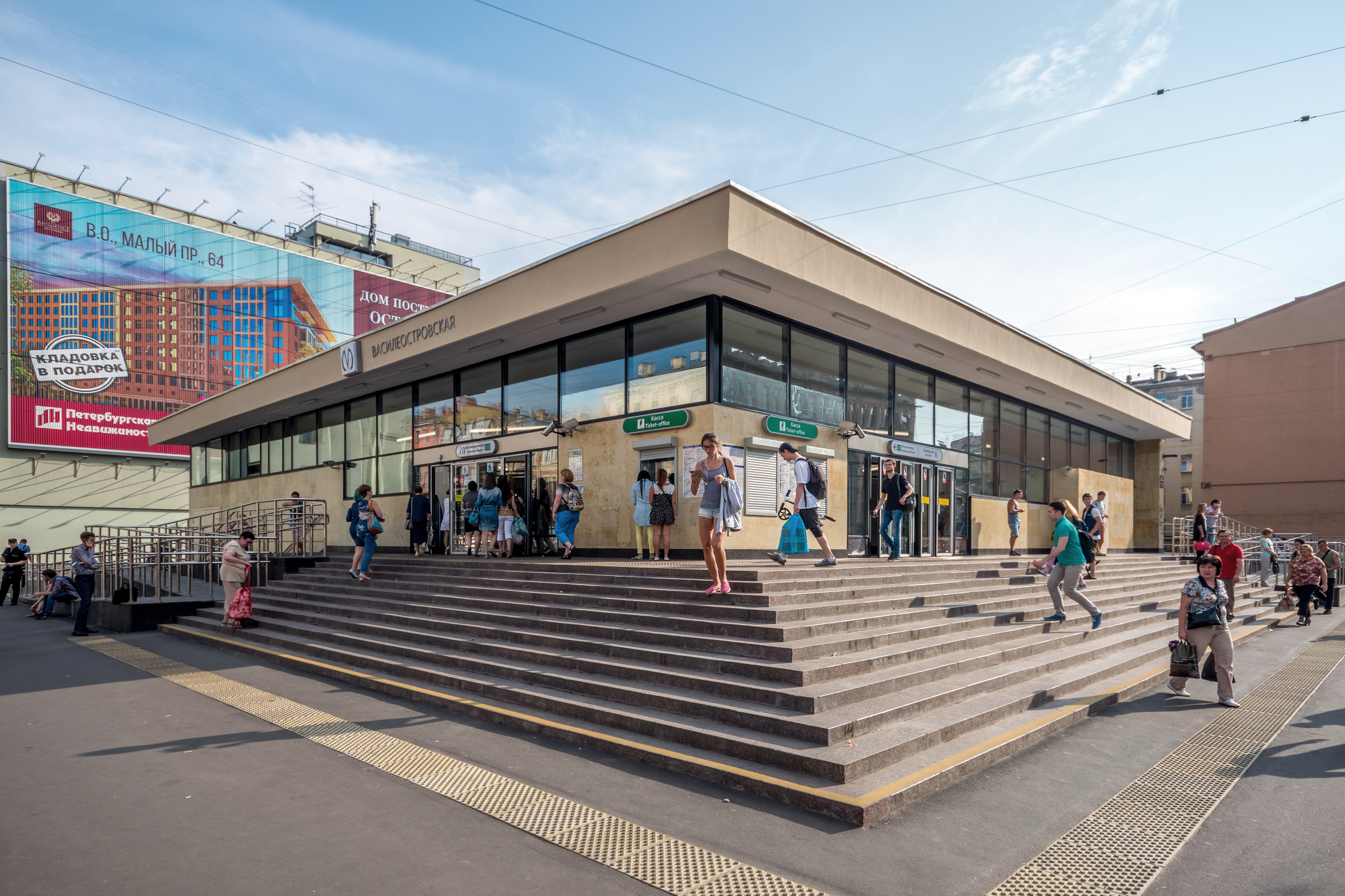 Vasileostrovskaya station of Saint Petersburg Metro